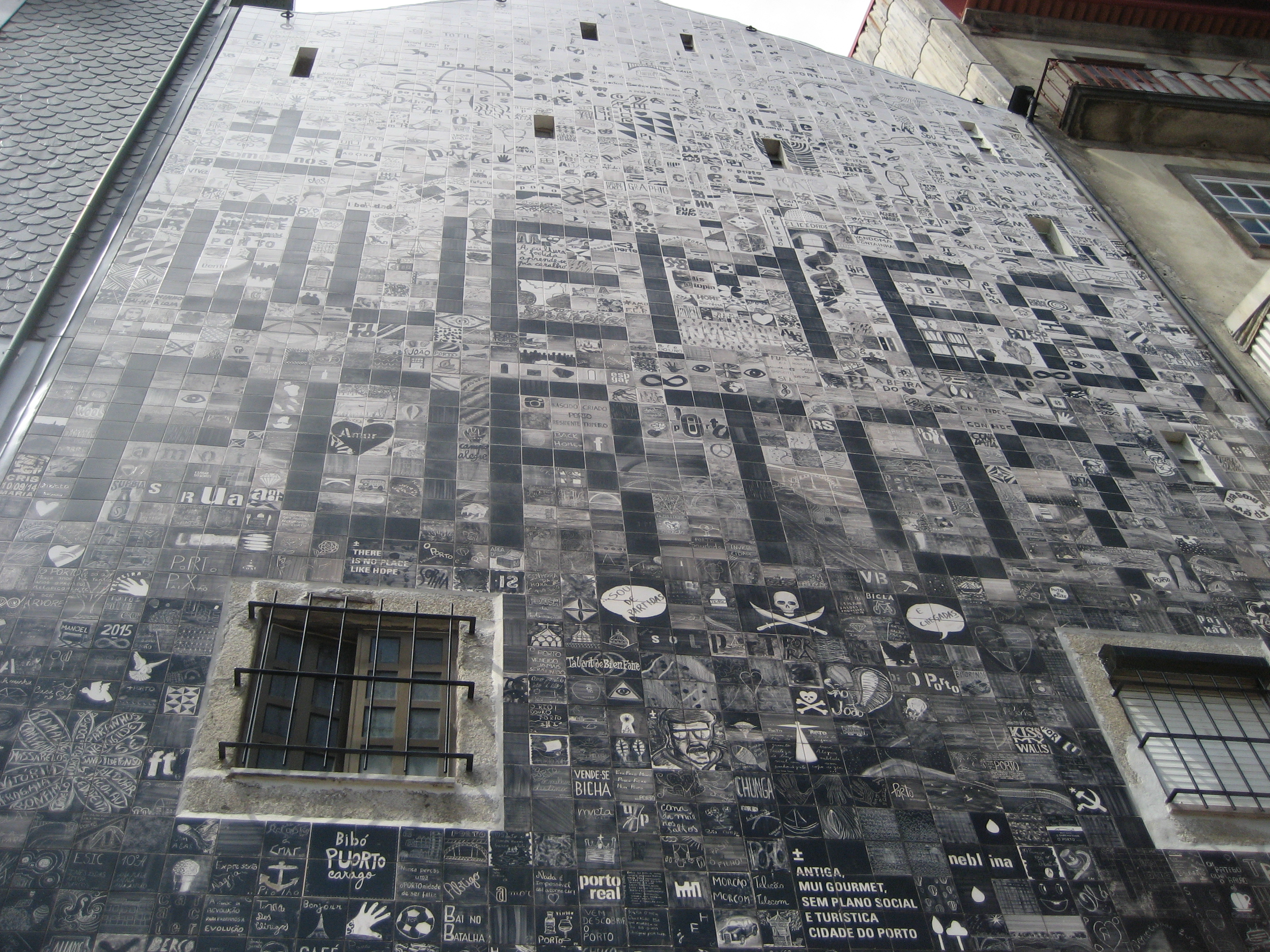 Quem és Porto? Street art with 3,000 azulejos by Locomotiva & Miguel Januário, Rua da Madeira, Porto (Portugal). Constructed in June 2015, see Informacao